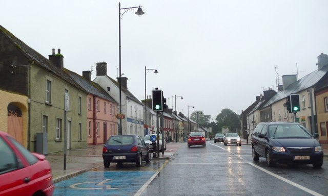 Main Street Castlemartyr, Co Cork, near to Baile na Martra, Droichead na Scuab, Mogeely and Kibmountain Cross Roads, Cork, Ireland. Main Street Castlemartyr, Co Cork